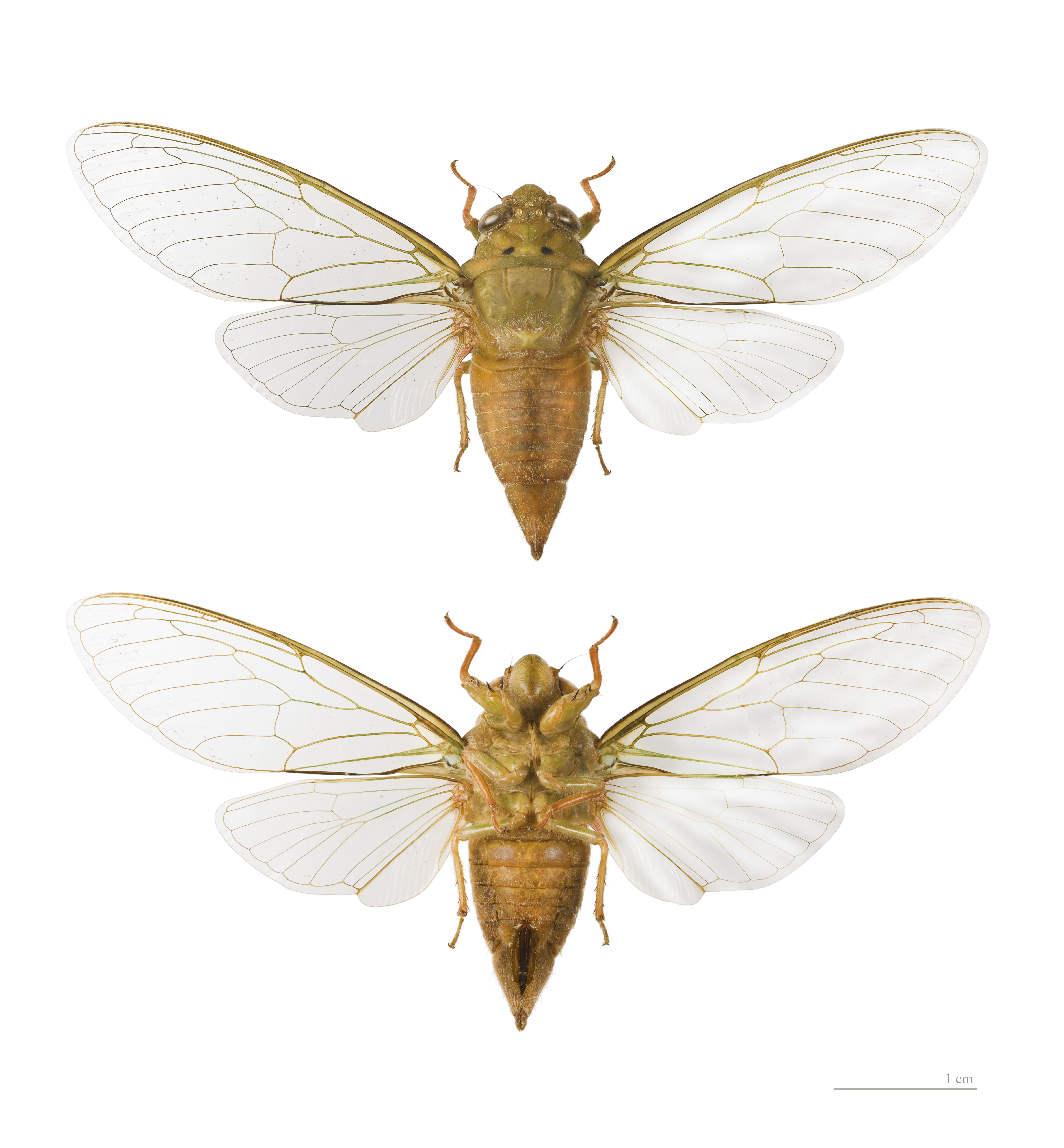 Two views of same specimen Locality : Mt Singes, Kourou, French Guiana